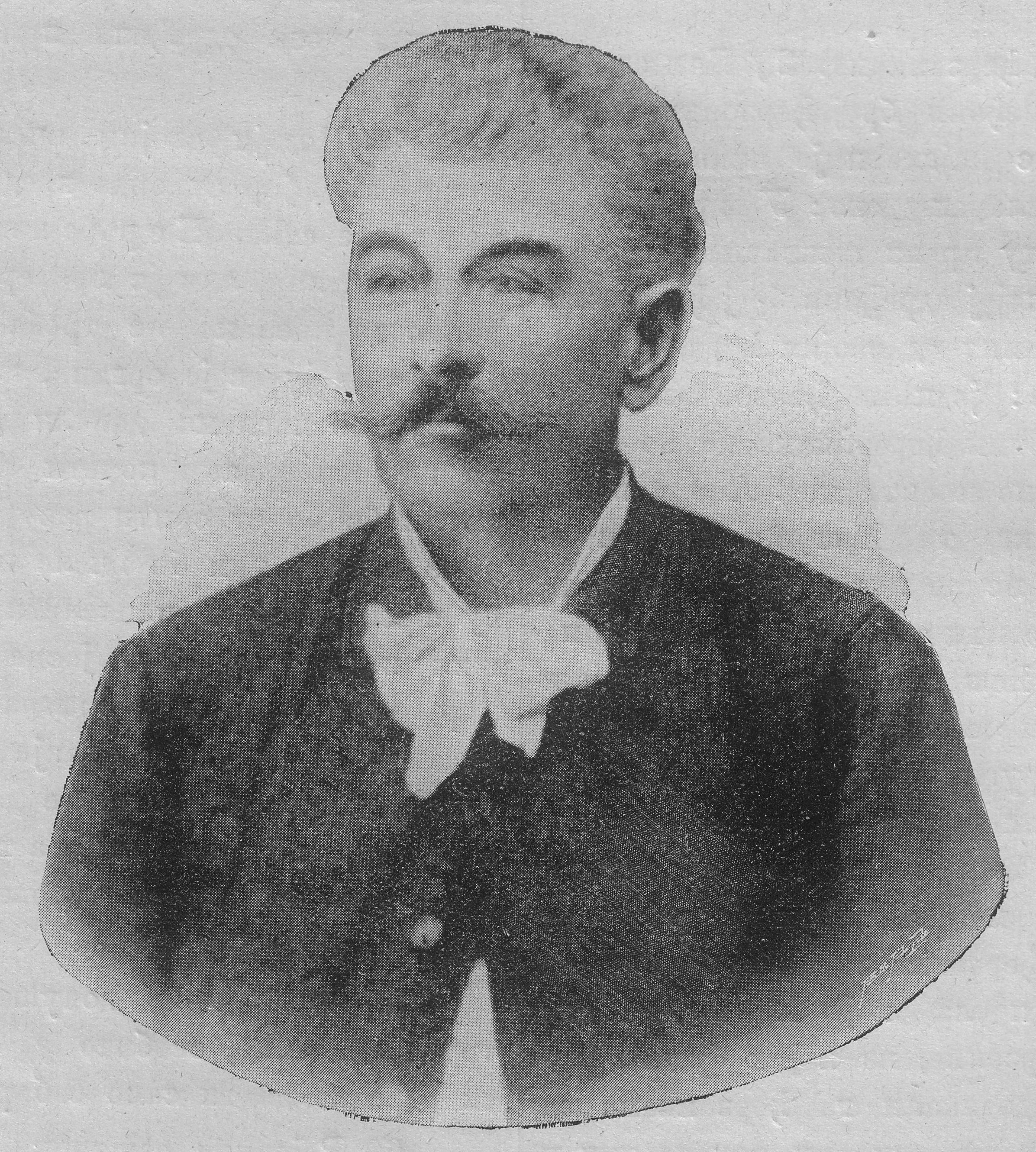 Kuzman Munčić (1828-1896), a lawyer and benefactor from Veliki Bečkerek (Zrenjanin).Taken from the 1898 edition of the calendar Orao. Srpski (latinica): Kuzman Munčić (1828-1896), advokat i dobrotvor iz Velikog Bečkereka (danas Zrenjanina). Preuzeto iz izdanja kalendara Orao za 1898. godinu.